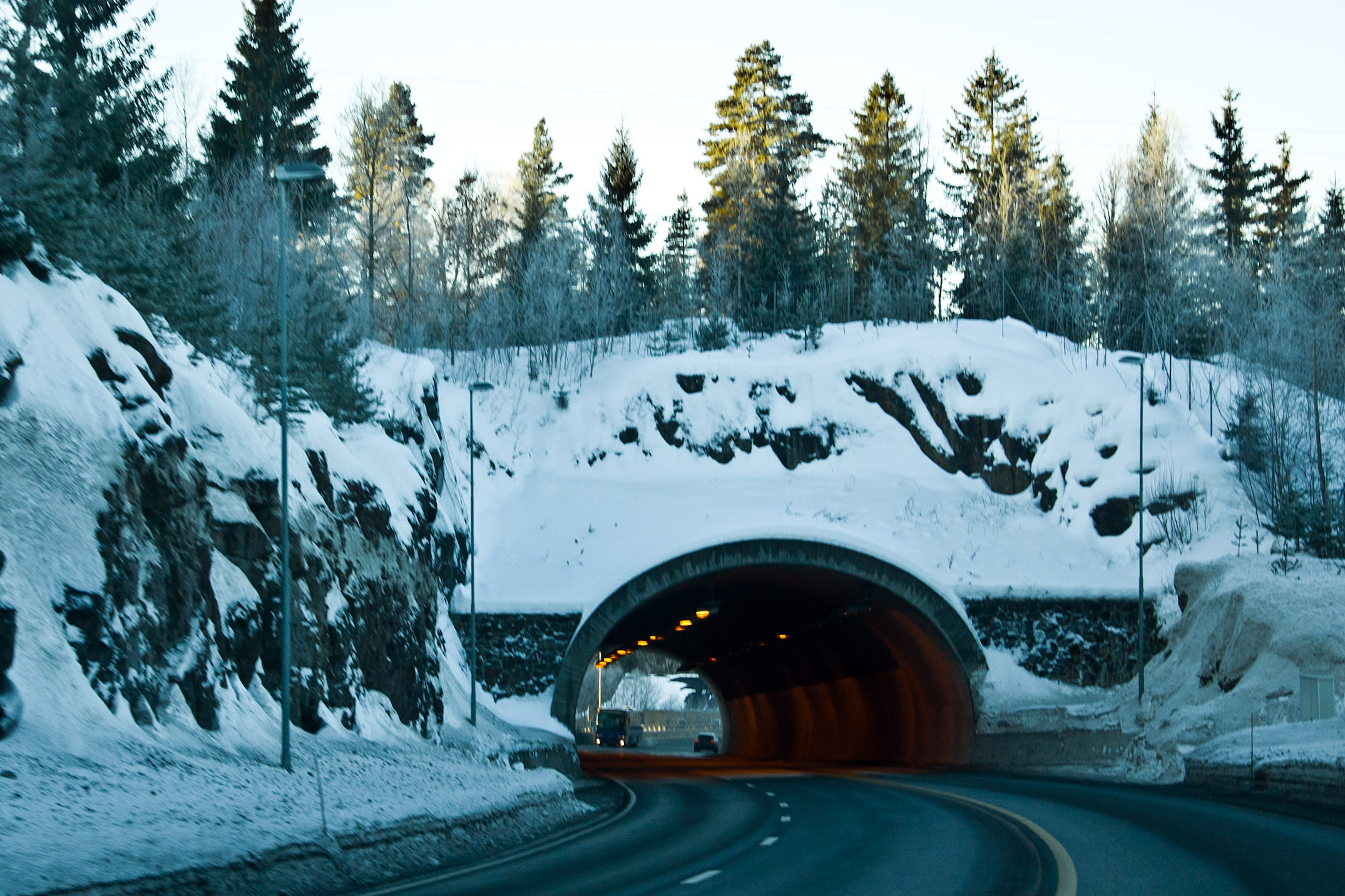 Rønningen tunnel on county road 32 in Vestfold, Norway